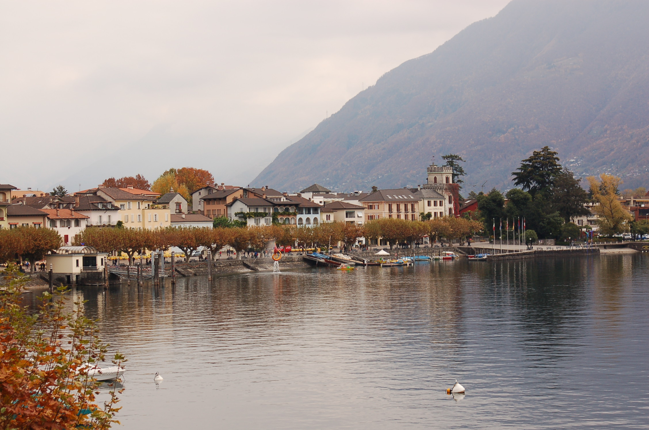 Ascona's Waterfront in Ticino, Switzerland. It was a beautiful little town.